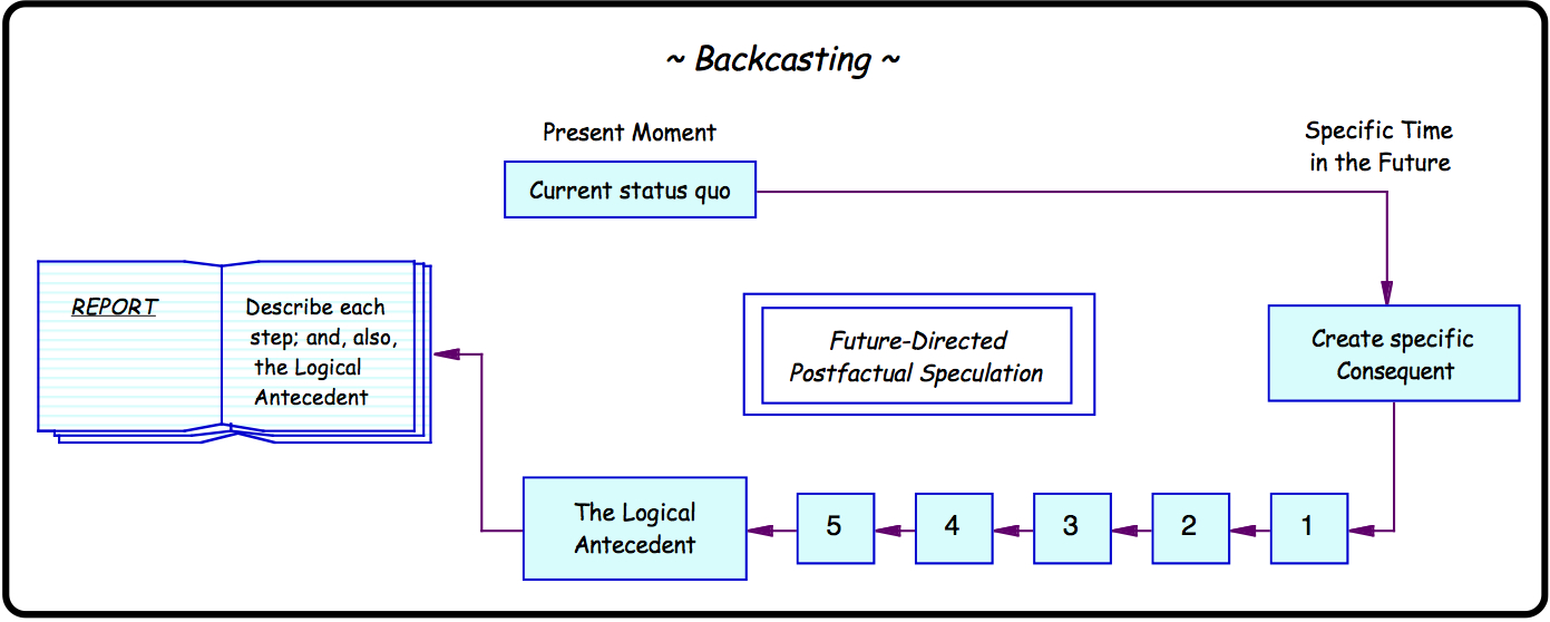 Taken from page 147 of Yeates, L.B., Thought Experimentation: A Cognitive Approach, Graduate Diploma in Arts (By Research) dissertation, University of New South Wales, 2004.